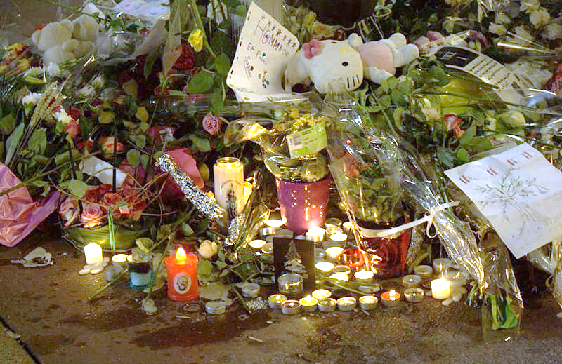 Memorial established at the site of the Nice attacks, July 16, 2016.